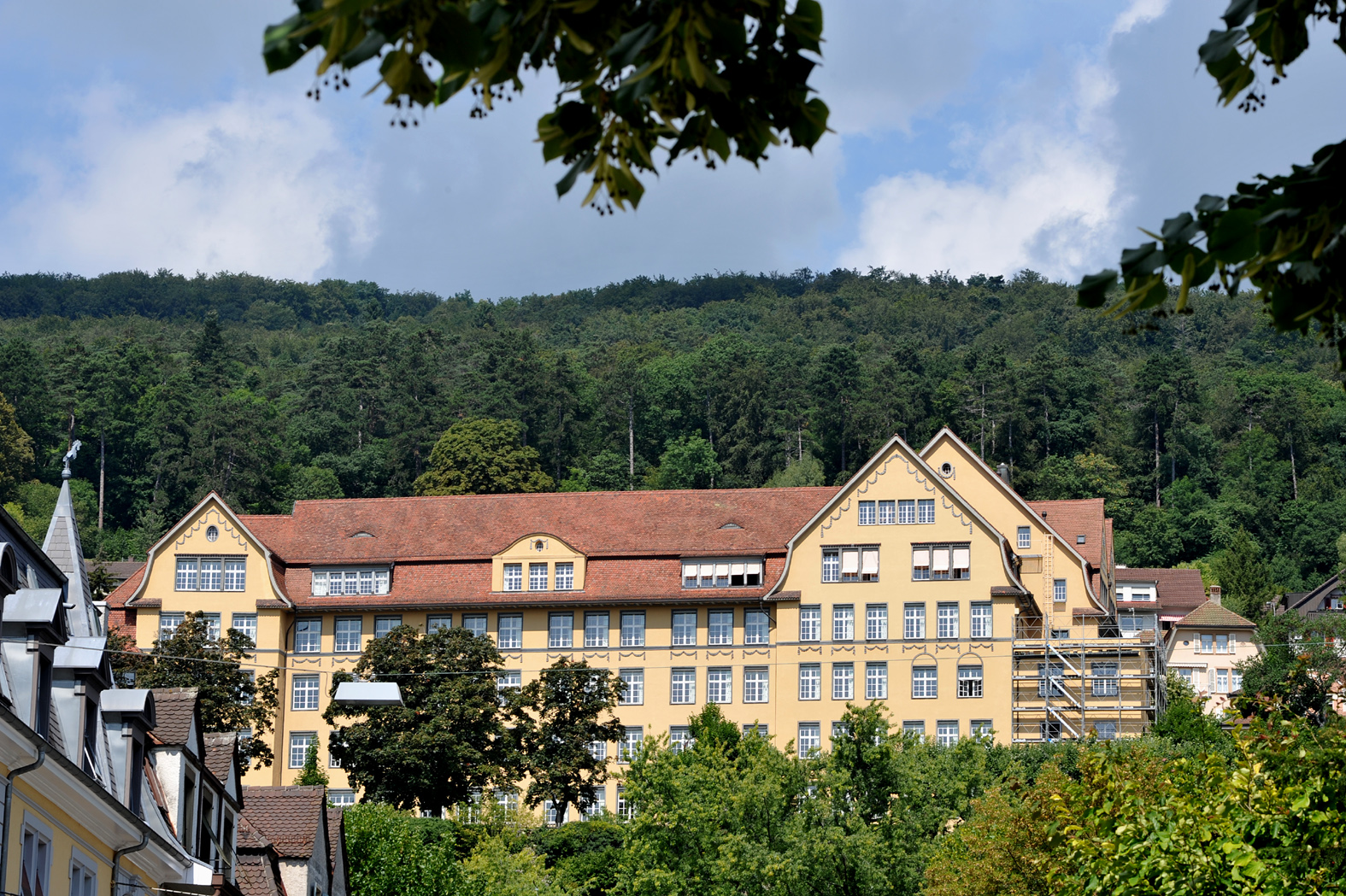 Biel, secondary school Alpenstrasse; Berne, Switzerland.